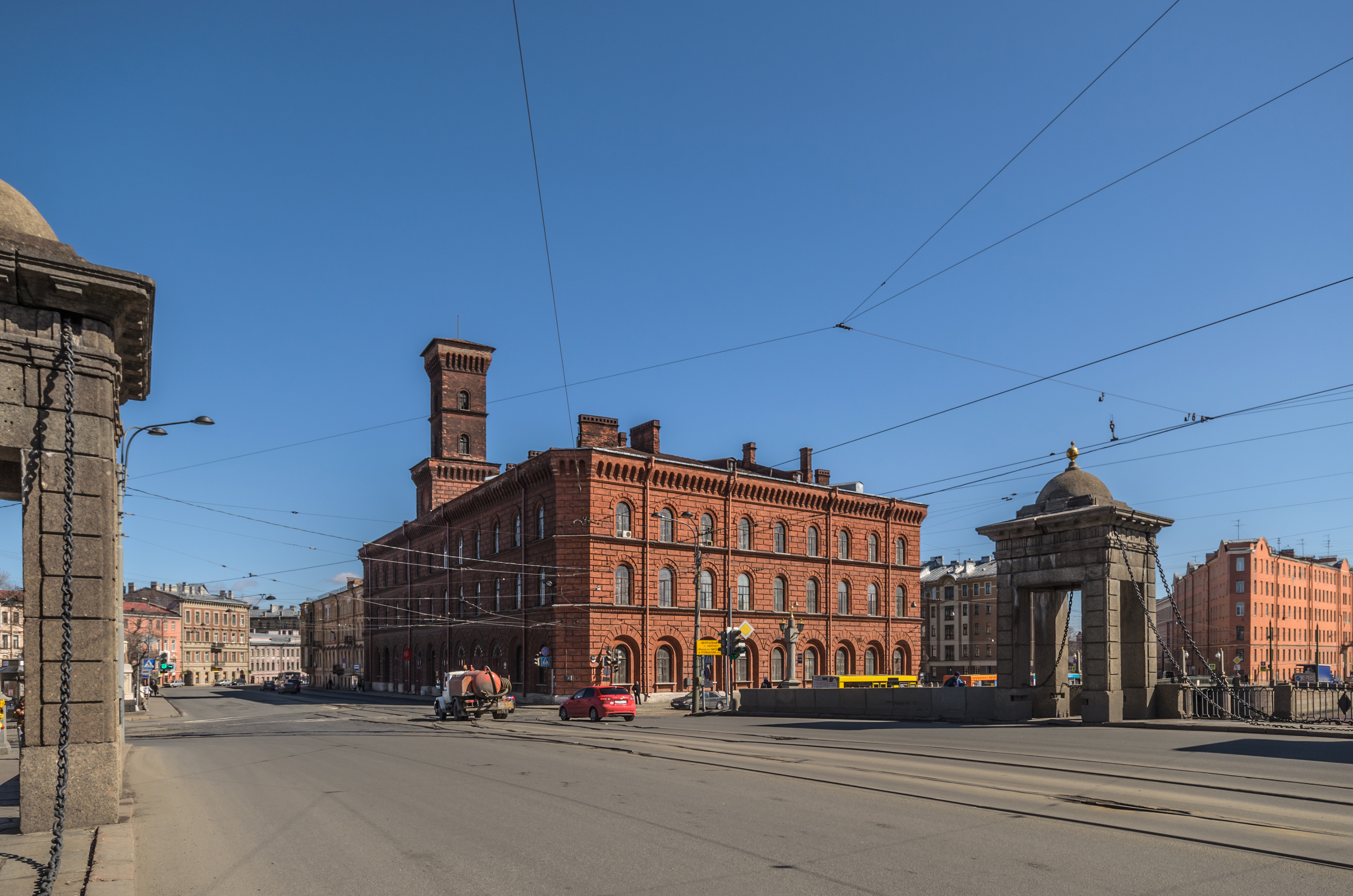 View to Repina Square from Staro-Kalinkin Bridge. Saint Petersburg